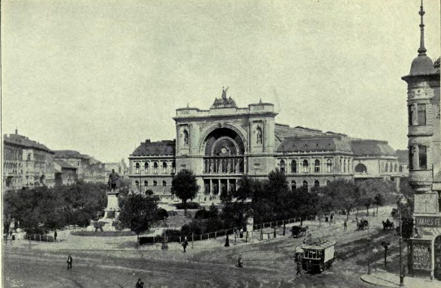 Central railway station, Budapest, early 20th century.